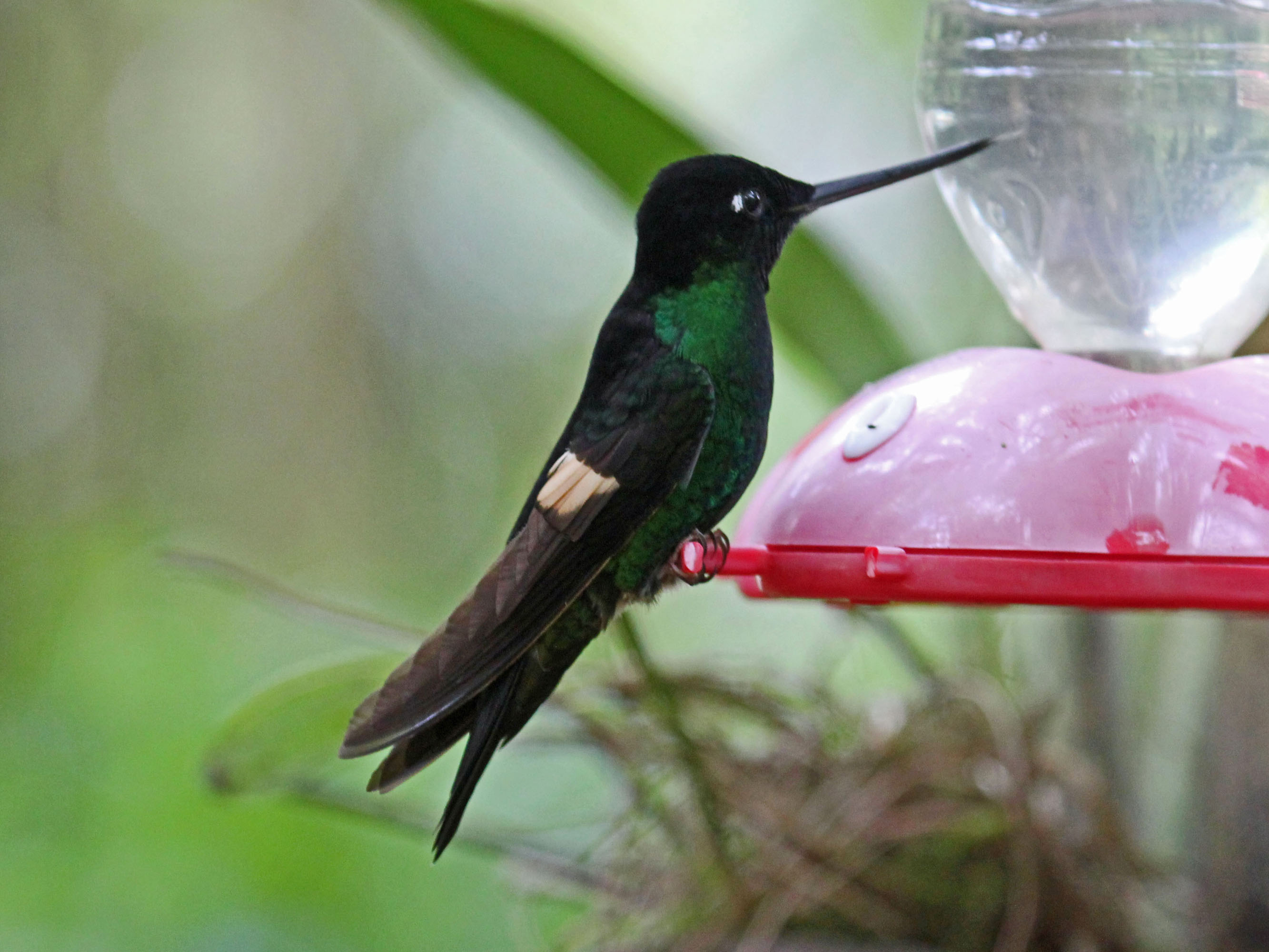 Buff-winged Starfrontlet (Coeligena lutetiae) - Guango Lodge, Ecuador